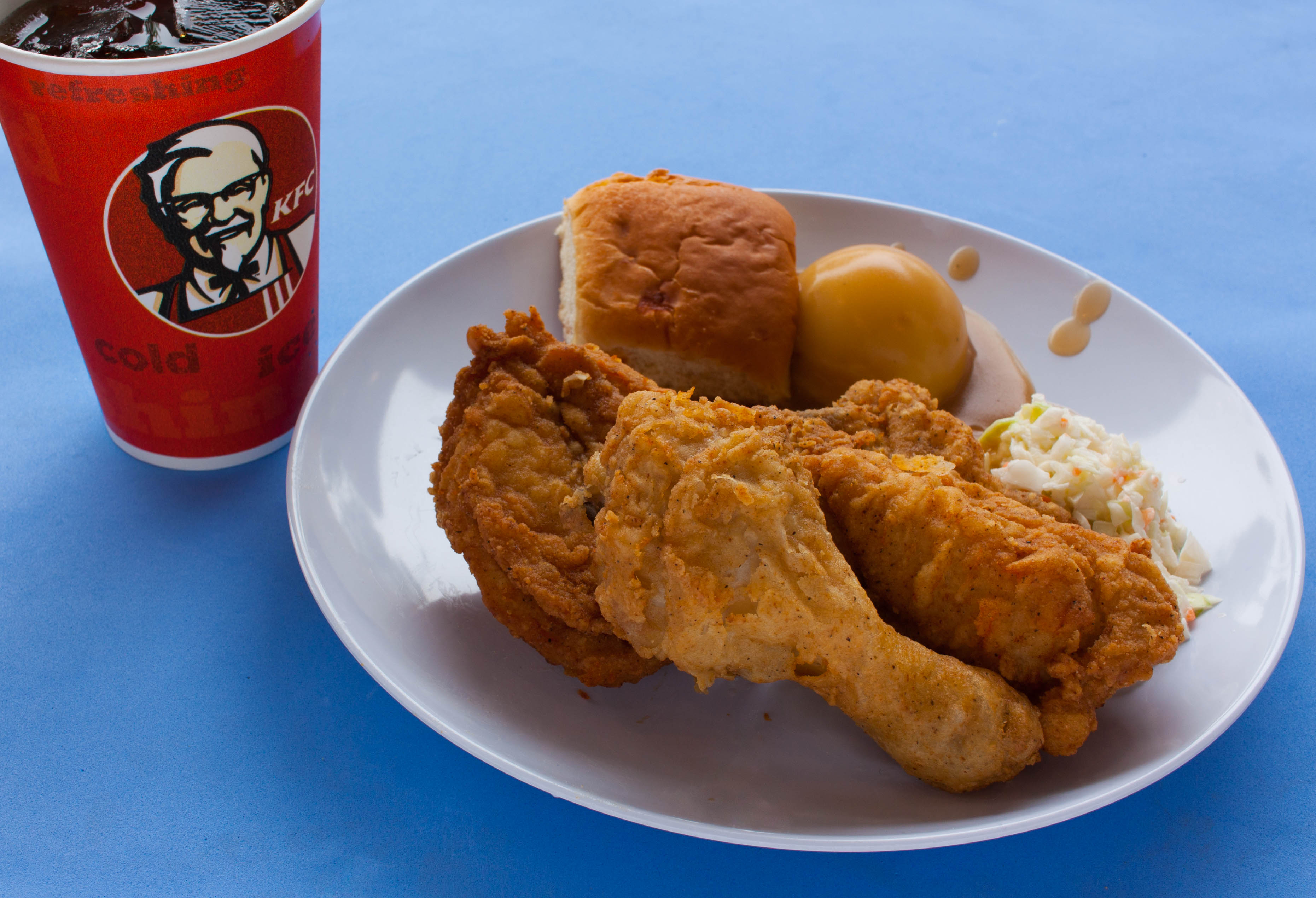 KFC Fried chicken